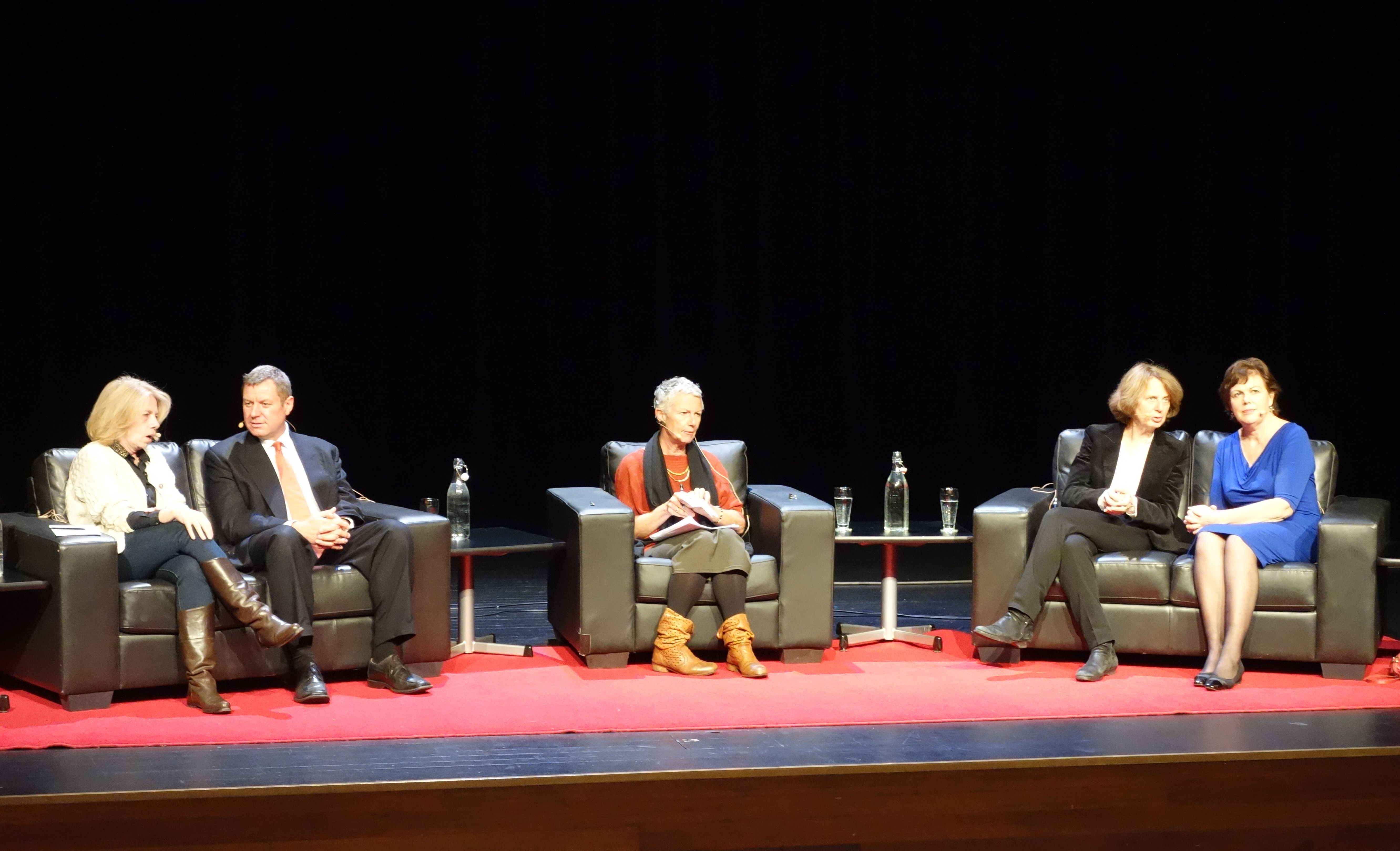 The Anthropocene challenge - panel discussion at Burnside High School. From left to right: Lucile Schmid, Prof Dave Frame, Kim Hill, Prof. Catherine Larrère and Bronwyn Hayward.